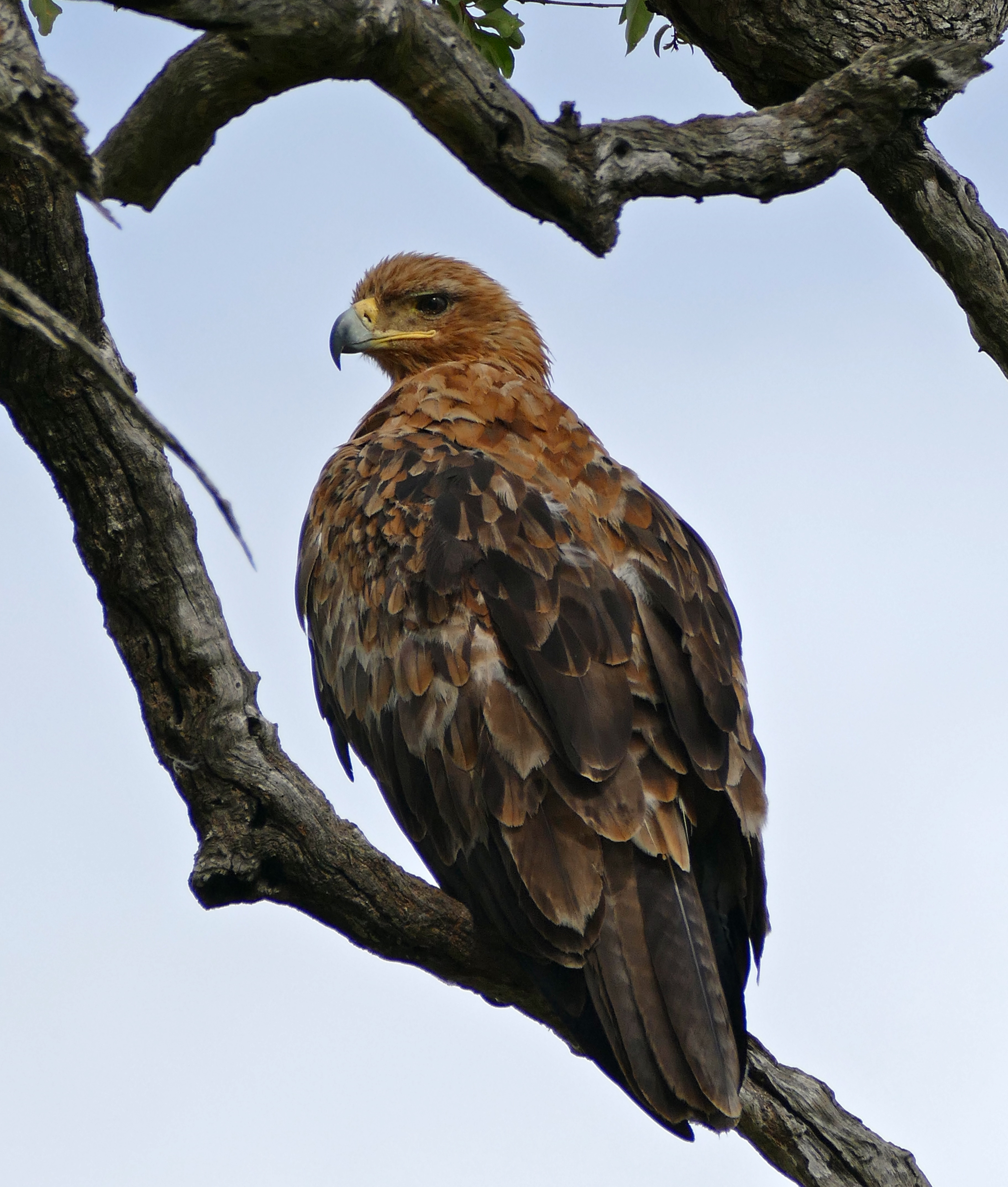 S140 Road East of Orpen, Kruger NP, SOUTH AFRICA